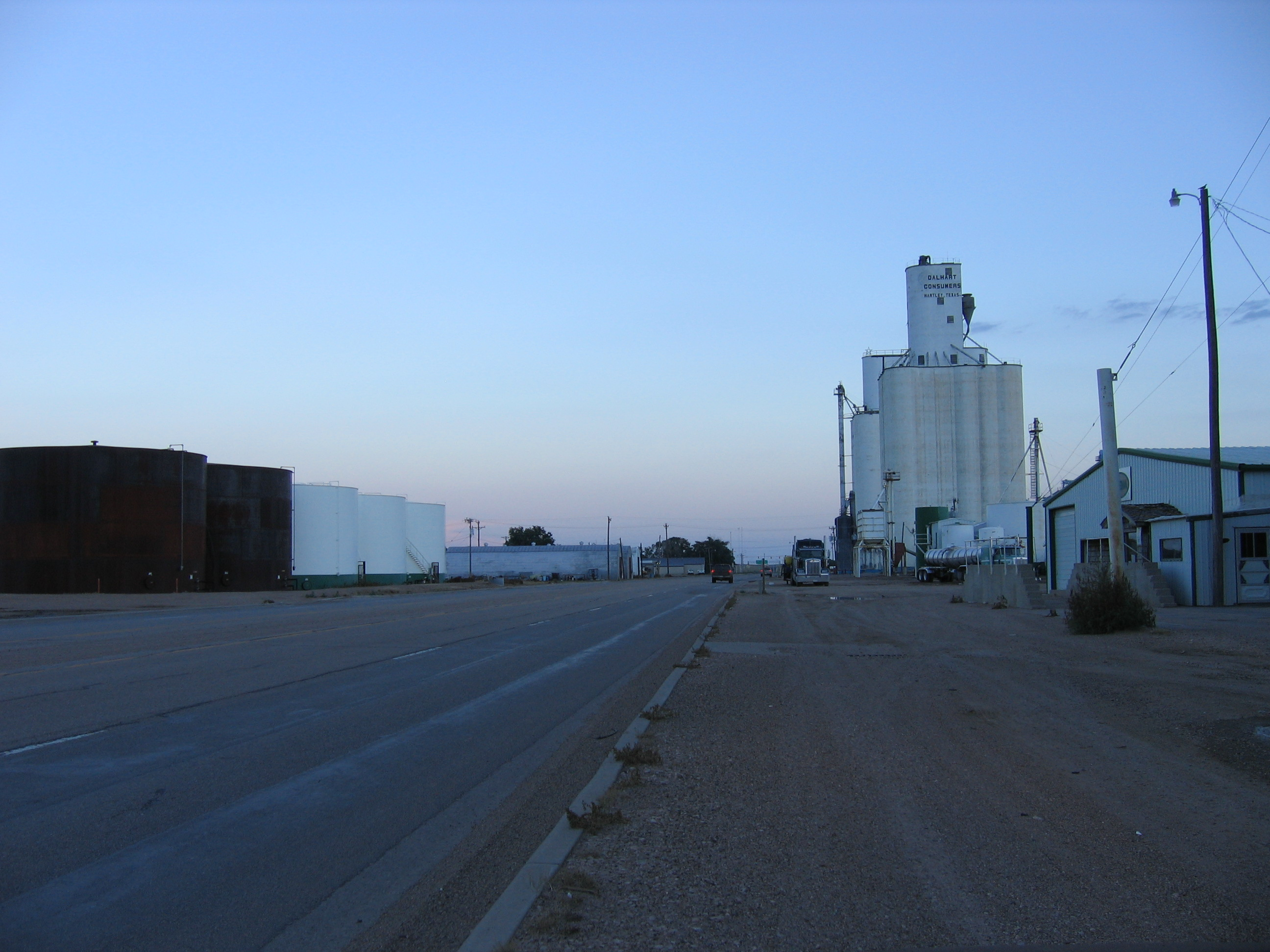 U.S. Highway 287 going through Hartley, Texas. Dalhart Consumers and Hartley Feeders are two large businesses locations here.